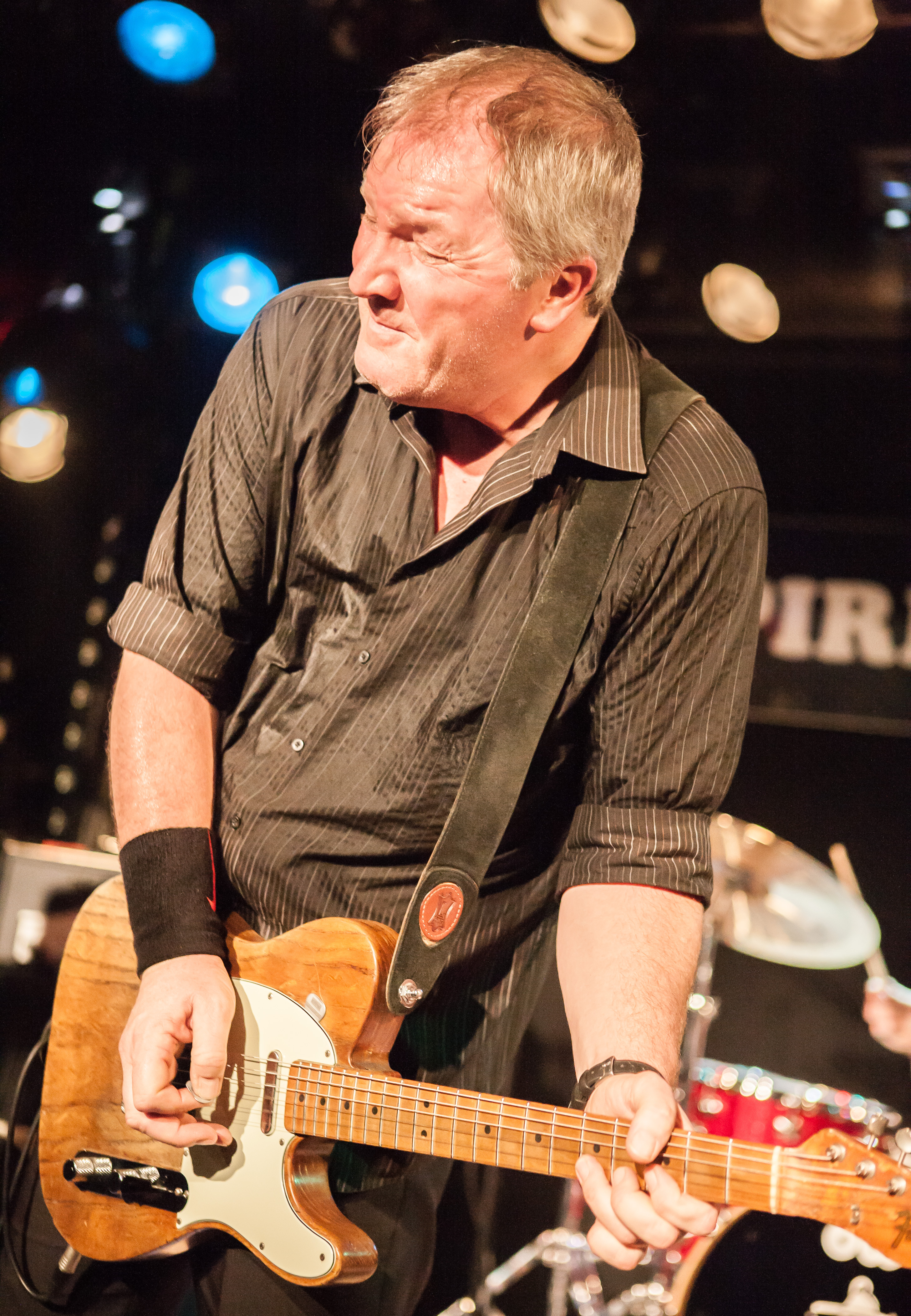 Steve Walwyn, guitarist of the British pub rock band Dr. Feelgood at music club Spirit of 66, Verviers, Belgium